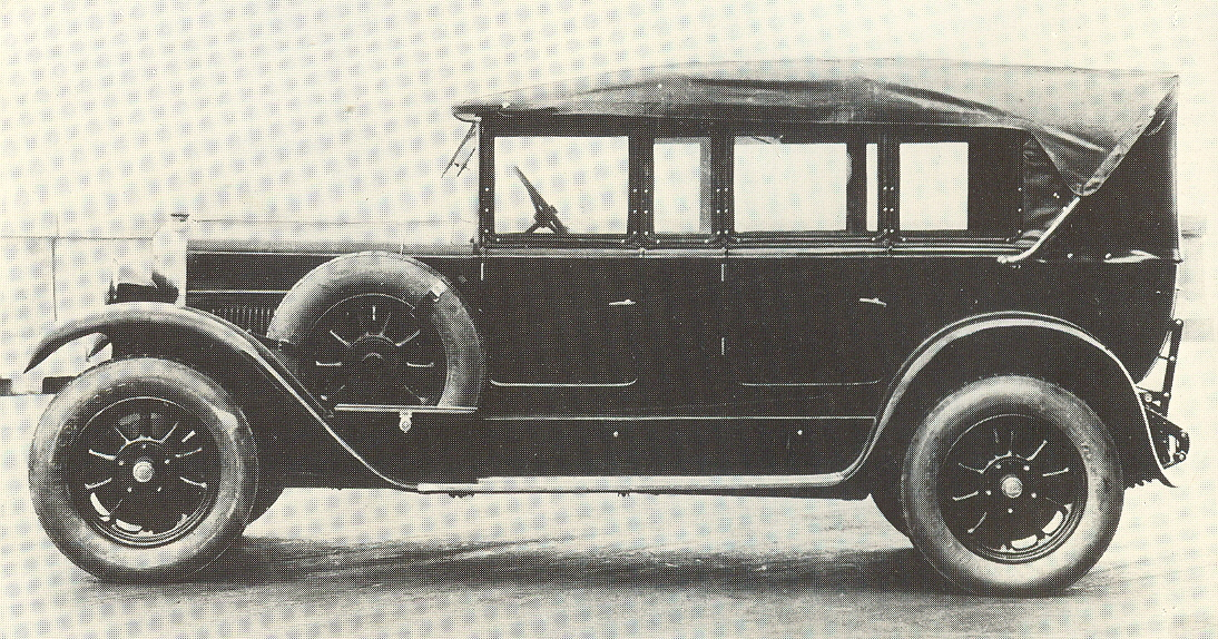 Fiat 507 Torpedo (1926)